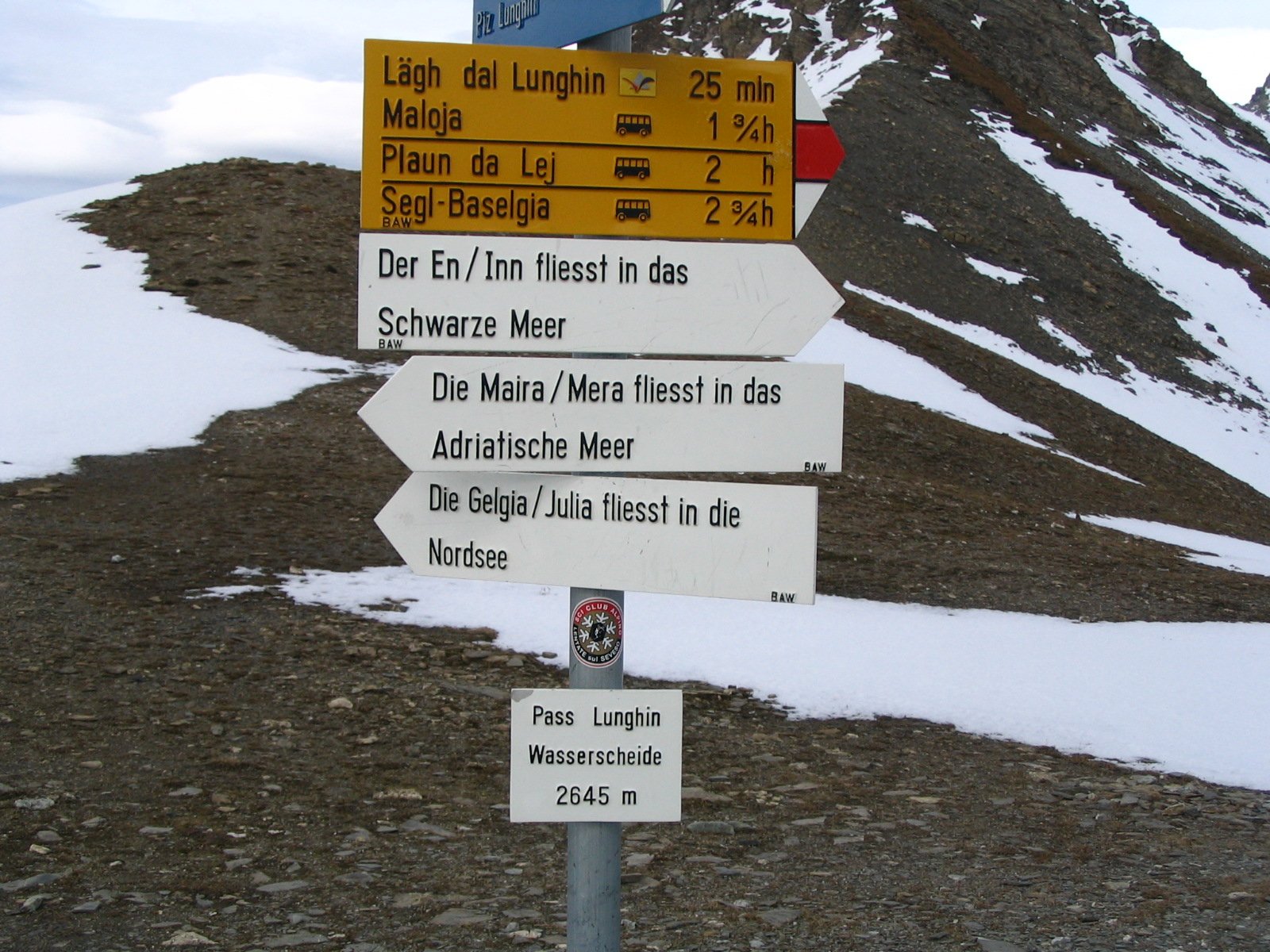 The triple watershed (Mediterranean Sea, Black Sea, North Sea) at the Lunghin pass, Graubünden